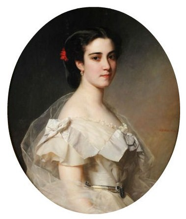 Baroness Lina Yxkull-Gyllenband